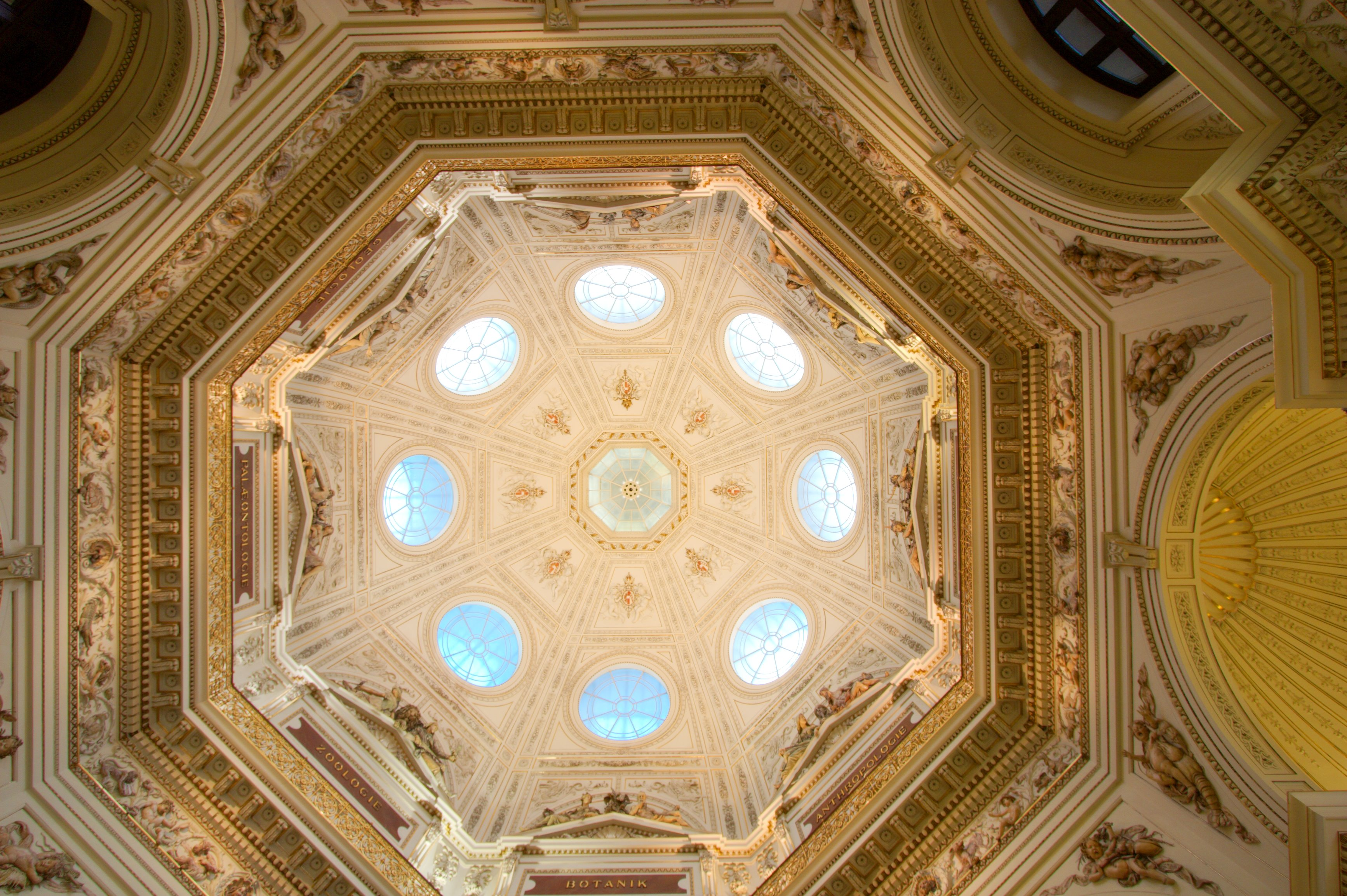 Austria, Vienna, Naturhistorisches Museum